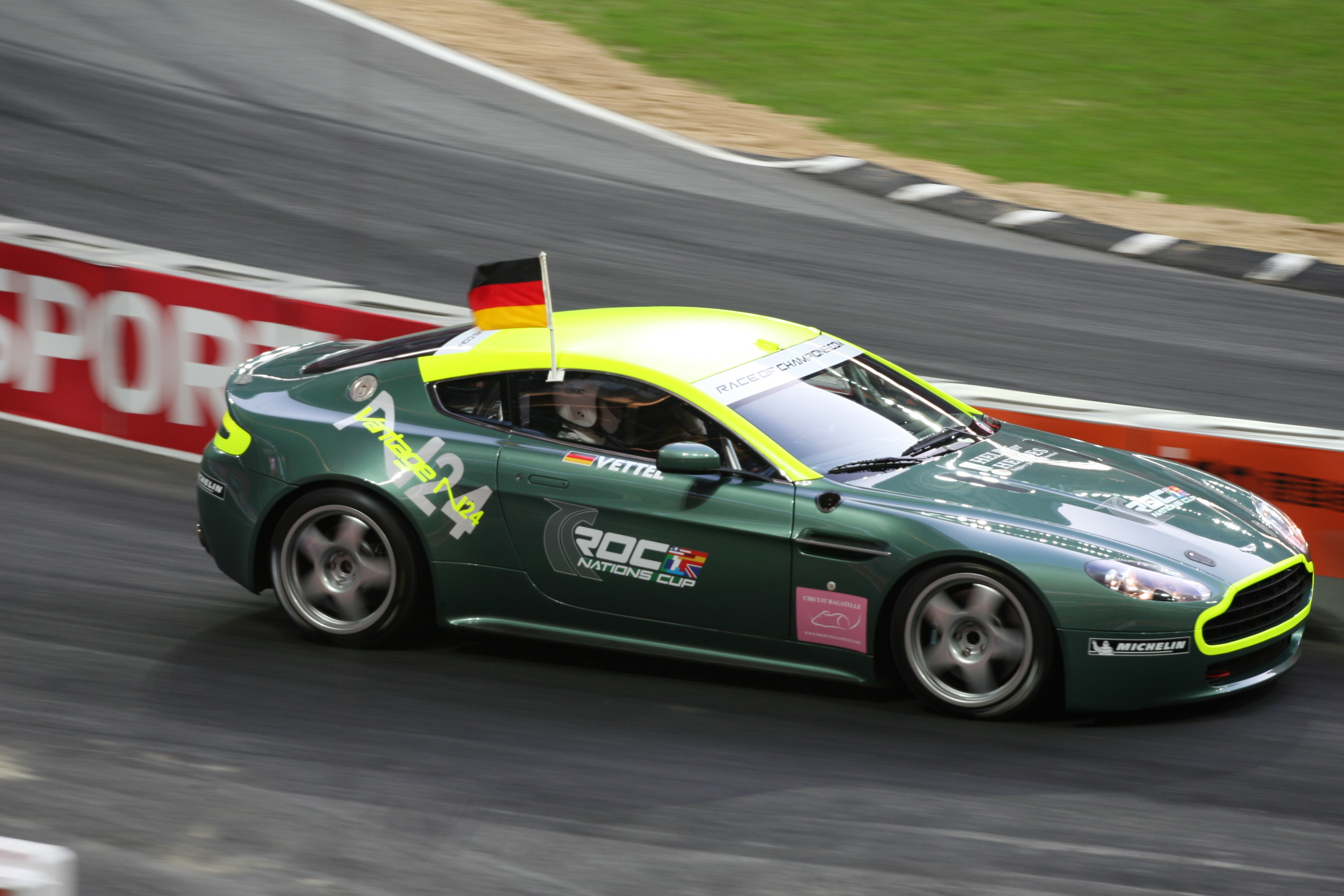 Sebastian Vettel driving an Aston Martin V8 Vantage N24 at the 2007 Race of Champions at Wembley Stadium.